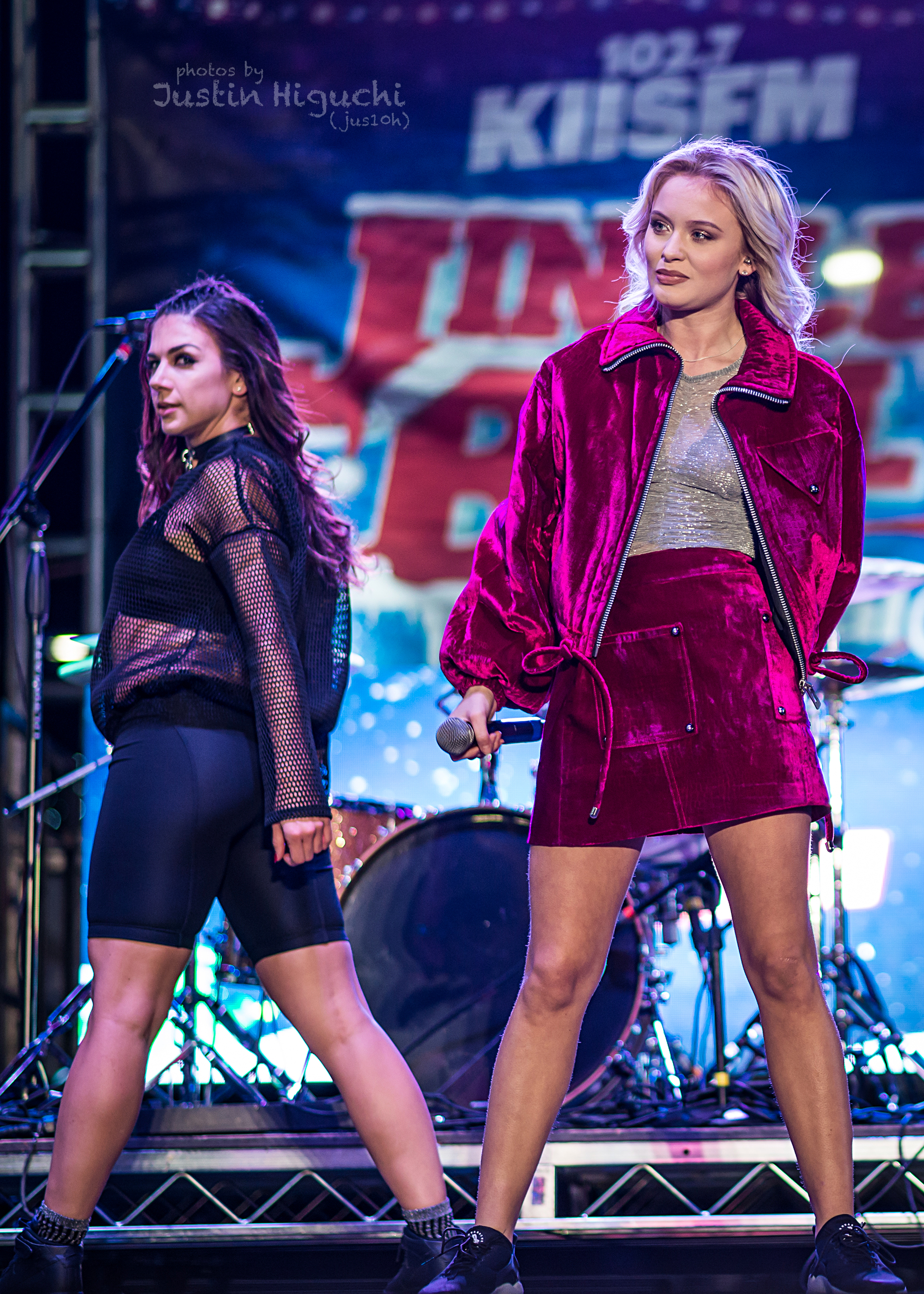 Zara Larsson performing live at the 102.7 KIIS FM Jingle Ball Village, outside Staples Center in downtown Los Angeles, California, on Friday, December 2, 2016.